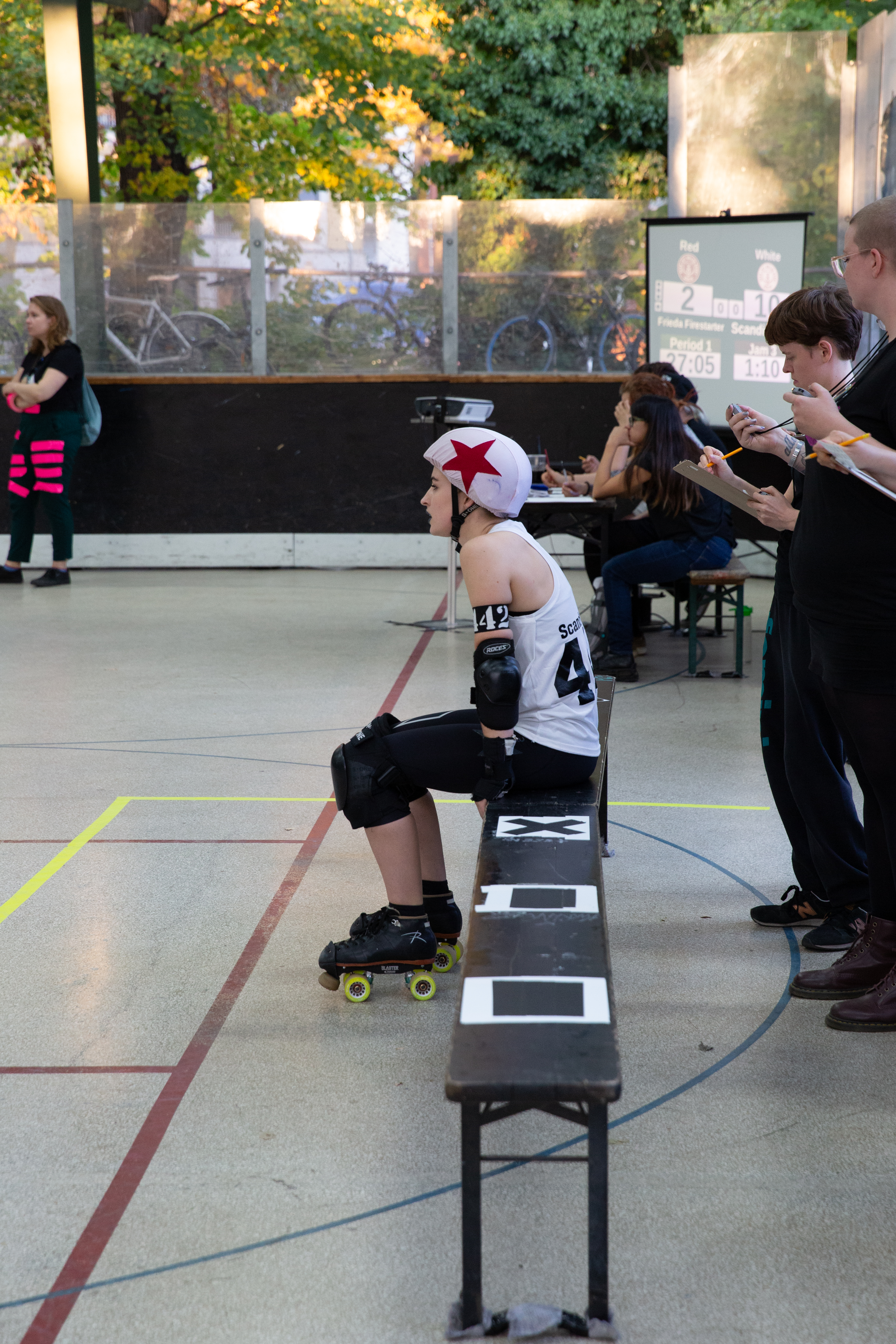 Berlin Rollt 2018